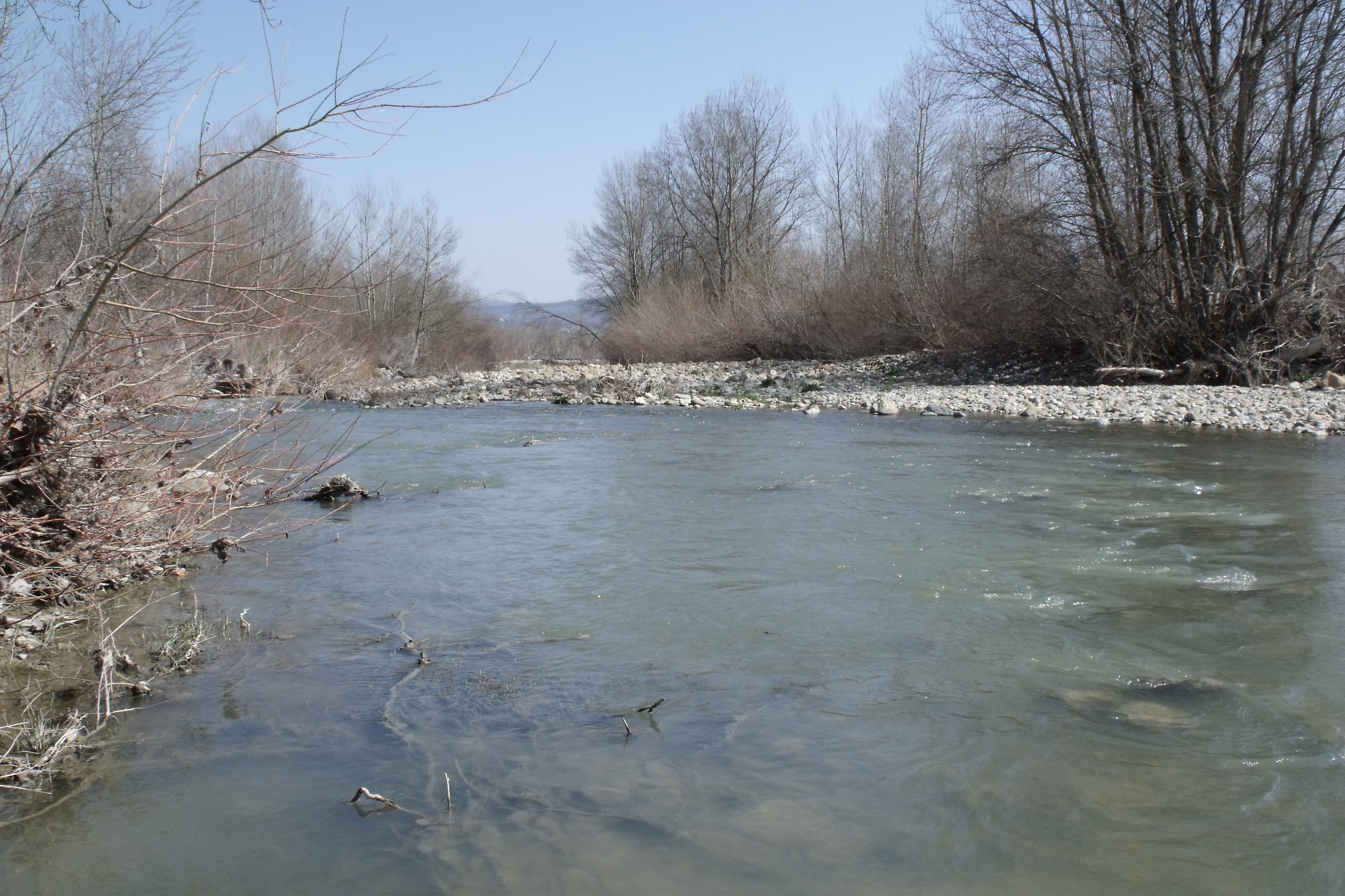 The Paglia River near Ponte a Rigo (San Casciano dei Bagni), Province of Siena, Tuscany, Italy